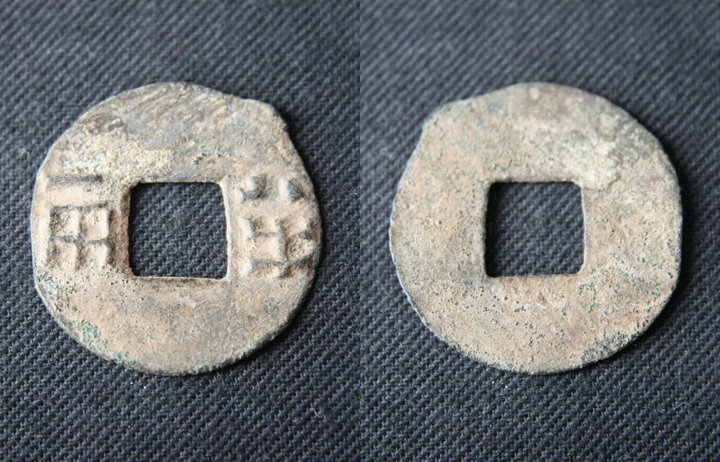 The front and reverse sides of a lead coin, 22–23 mm in diameter, issued during the reign of Emperor Wu (r. 141–87 BCE) of the early Han Dynasty of China. It was most likely issued privately before the government monopolized the issuage of coinage throughout the empire.